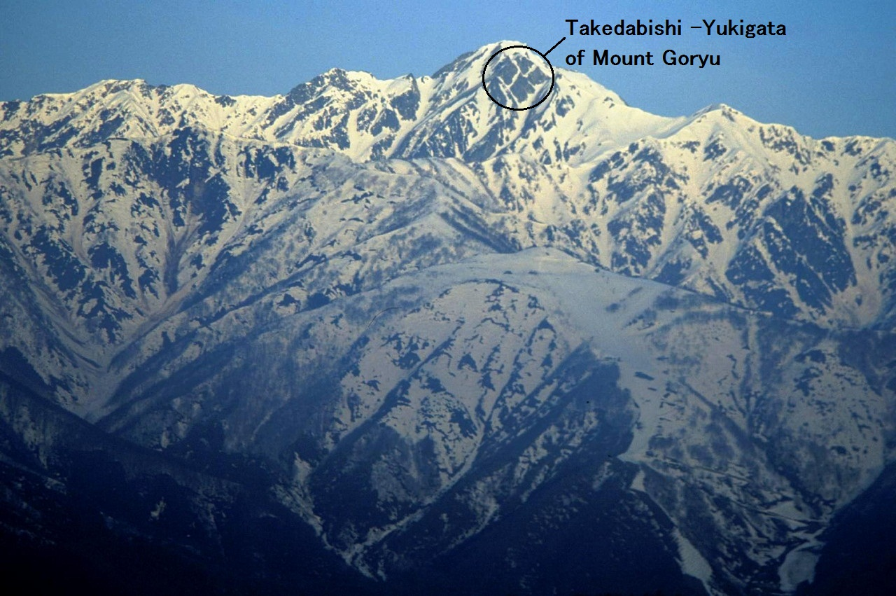 Yukigata_of_Mount_Goryu